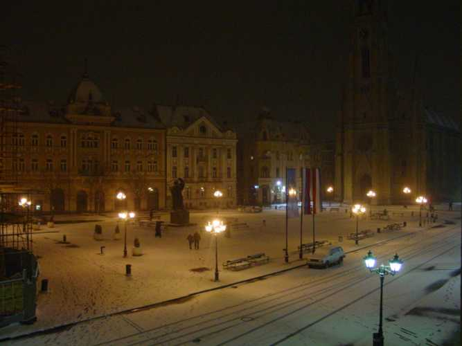 View of central Novi Sad in winter photo taken Jan 2003 by me 21:23, 27 Oct 2004 (UTC)